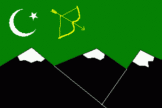 Flag of Hunza (Hunzukuc, Pakistan) File history (from de.wikipedia): 04:40, 20. Jul 2005 Trödler 324 x 216 (19479 Byte) ( Bildbeschreibung|Flagge Hunza. | |Jaume Ollé |2001 |. Bild-GFDL})